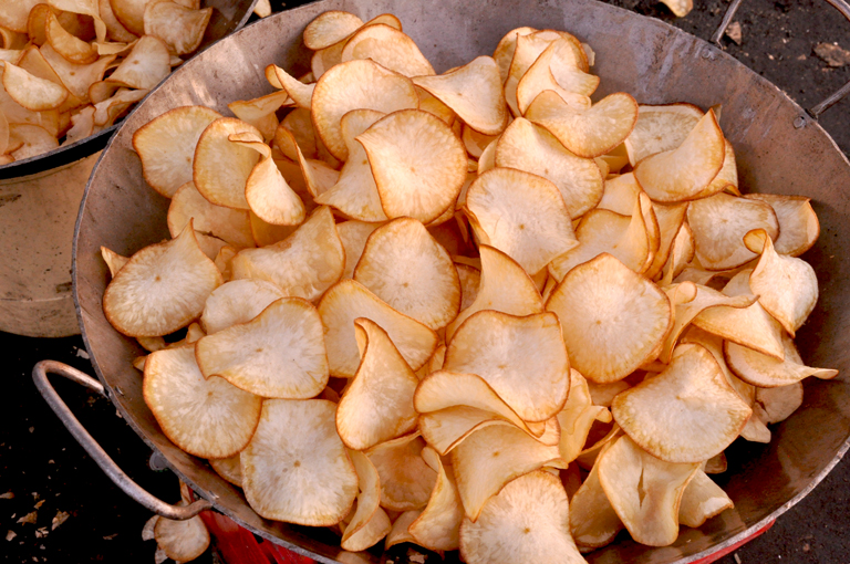 Thinly sliced cassava which is then deep fried in vegetable oil.